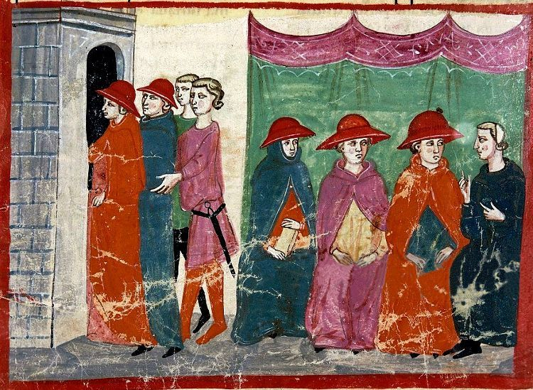 Nuova Cronica